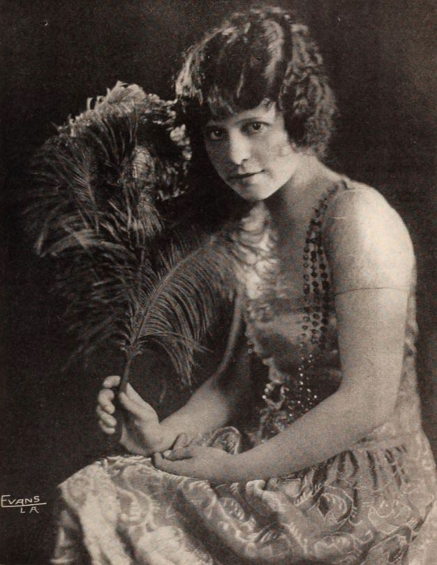 Actress Neva Gerber, on page 59 of the January 10, 1920 Exhibitors Herald.